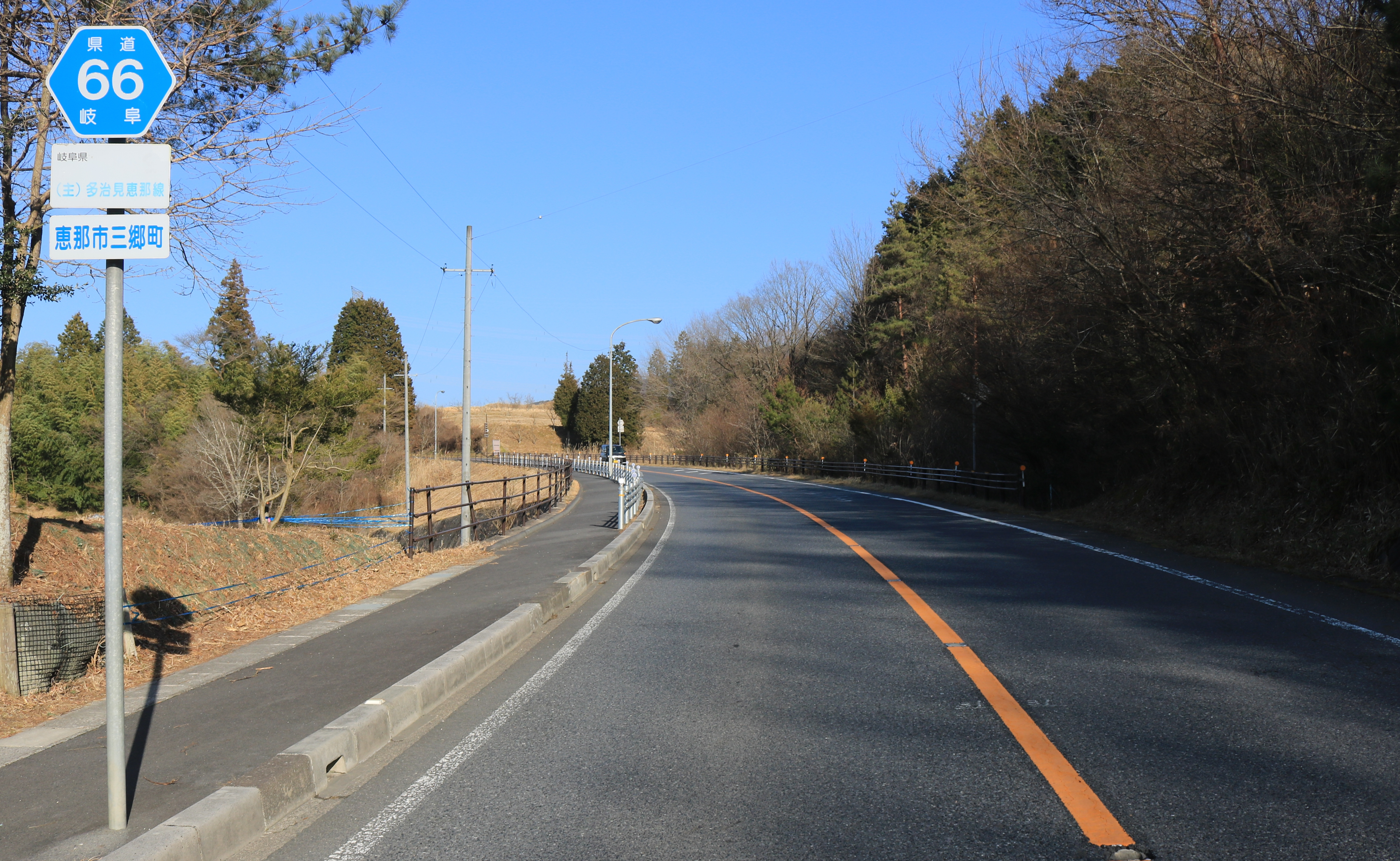 Gifu Prefectural Road Route 66 (Tajimi-Ena Line) in Noi, Sangōchō, Ena, Gifu Prefecture, Japan.